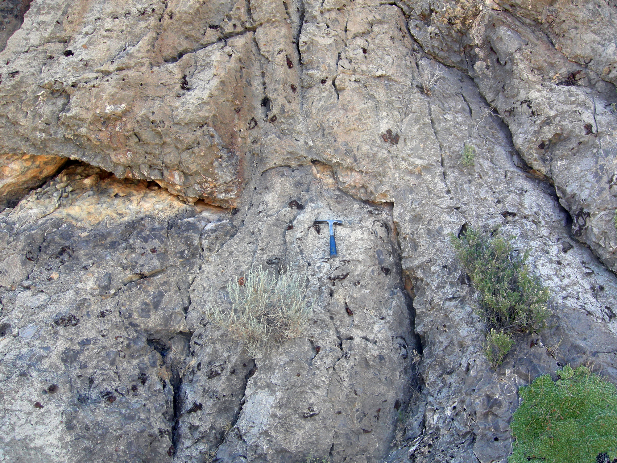 Alamo impact breccia (Late Devonian, Frasnian) near Hancock Summit, Pahranagat Range, Nevada.